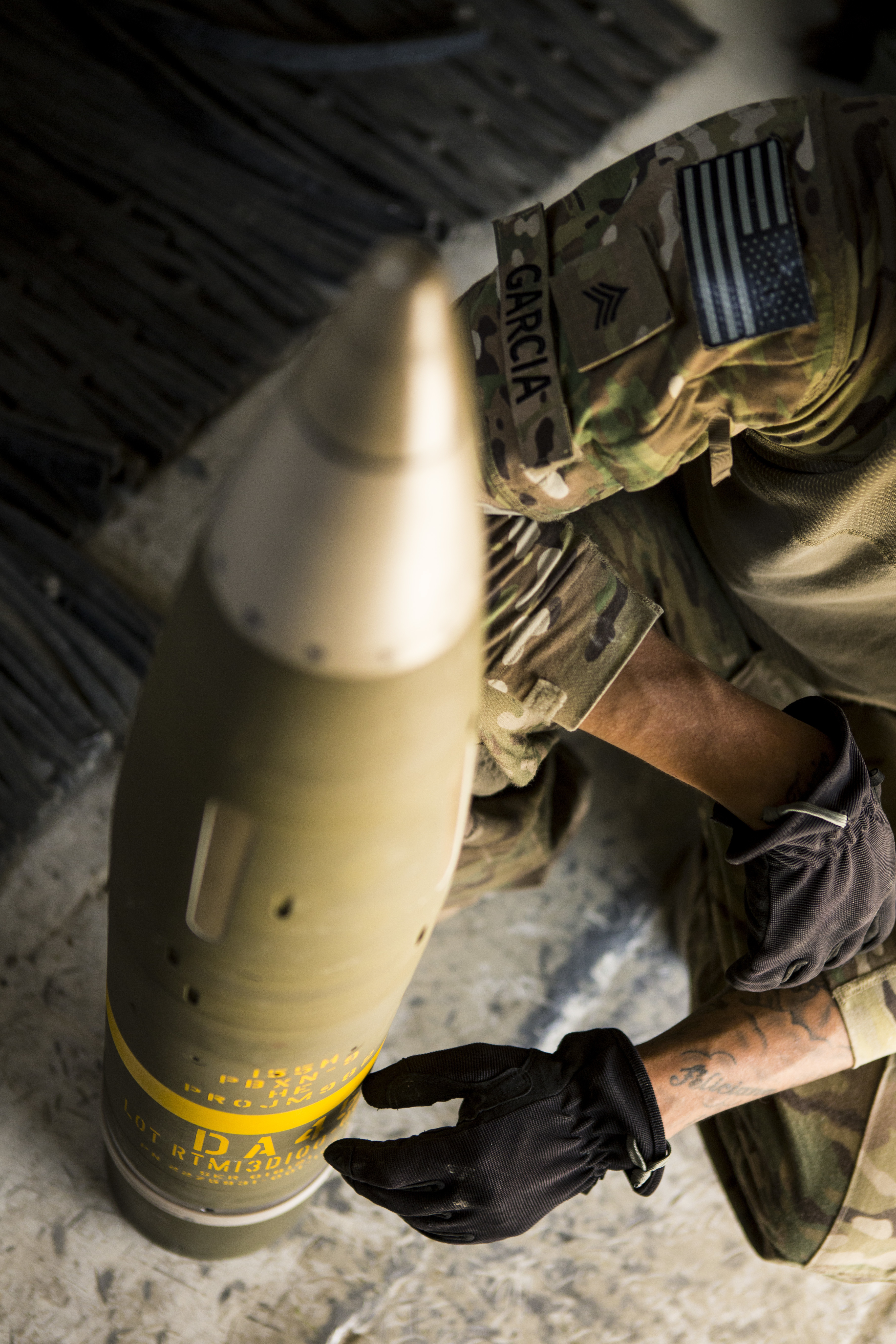 A U.S. Army Soldier with Battery C, 4th Battalion, 1st Field Artillery Regiment, 1st Armored Division, Task Force Al Taqaddum, prepares to load an artillery round while conducting artillery strikes with an M109A6 Paladin howitzer at Al Taqaddum Air Base, Iraq, June 27, 2016. The strikes were conducted in support of Operation Inherent Resolve, the operation aimed at eliminating the Islamic State of Iraq and the Levant, and the threat they pose to Iraq, Syria, and the wider international community. The destruction of ISIL targets in Iraq further limits the group's ability to project terror and conduct operations. (U.S. Marine Corps photo by Sgt. Donald Holbert/ Released) Unit: 5th Marine Expeditionary Brigade DVIDS Tags: USMC; U.S. Marine Corps; 1st Armored Division; Combat Camera; COMCAM; Iraq; Artillery; Paladin Howitzer; 4th Battalion 1st Field Artillery Regiment; ISIL; SPMAGTF-CR-CC; Operation Inherent Resolve; OIR; Special Purpose Marine Air Ground Task Force-Crisis Response-Central Command; SPMAGTF-CR-CC 16.2; 4/1FA